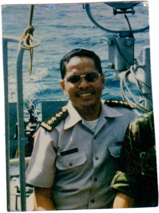 This picture was taken by Sarendy Vong's wife. She has given it a creative commons share alike license.